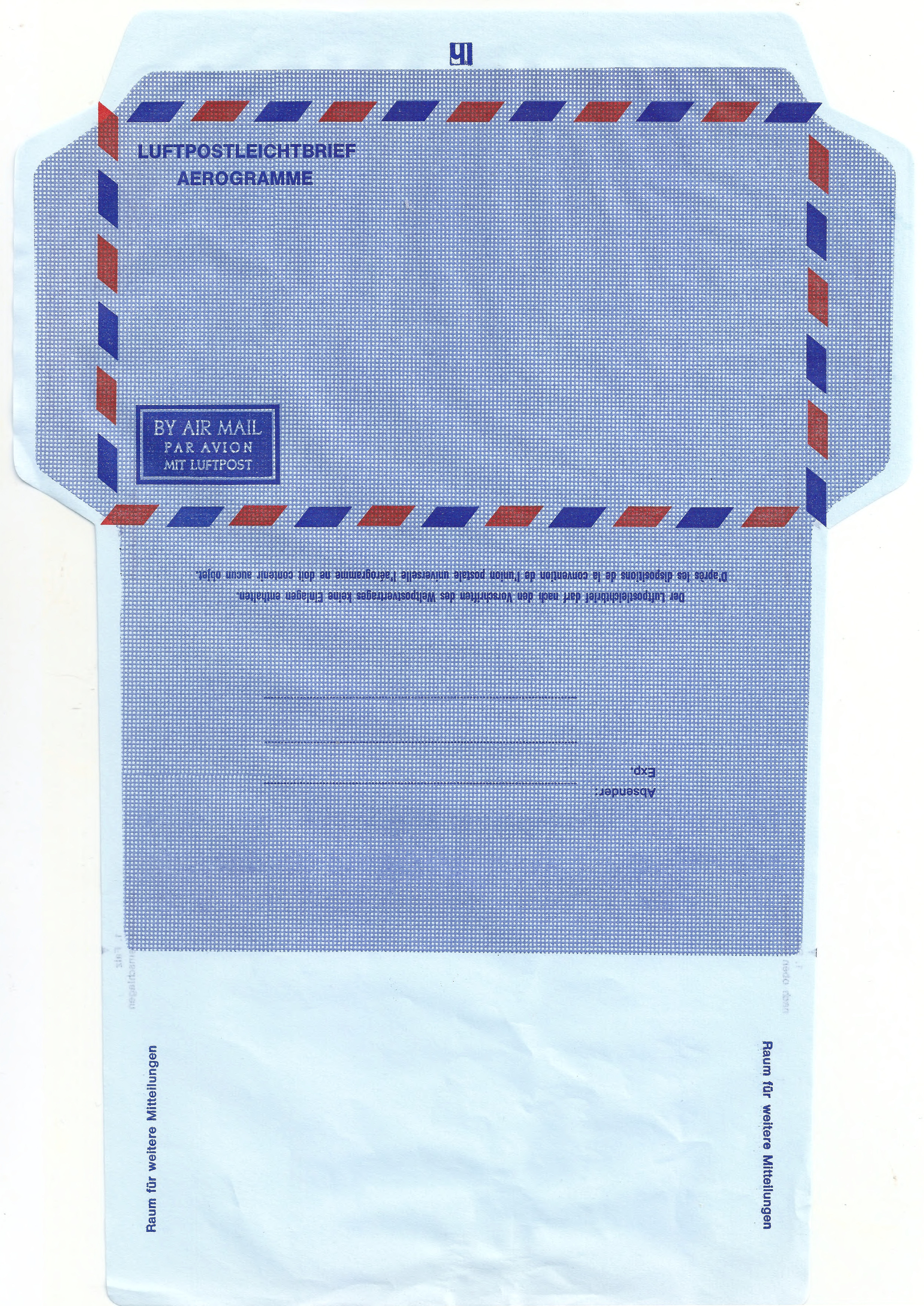 Aerogramme unfolded, outer view